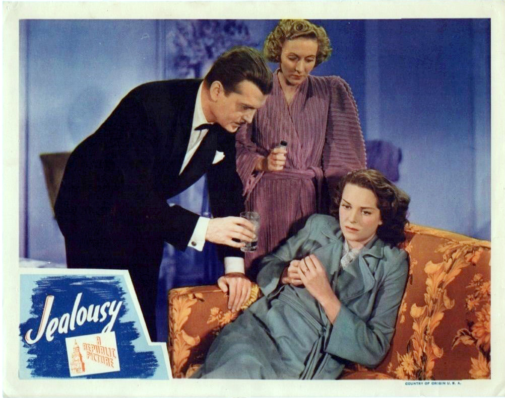 Lobby card from the 1945 film Jealousy with John Loder, Karen Morley and Jane Randolph.